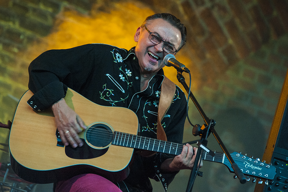 Leszek Cichoński on stage in Pułtusk, Poland during The 4th Krzysztof Klenczon Memorial Festival in July 2016.